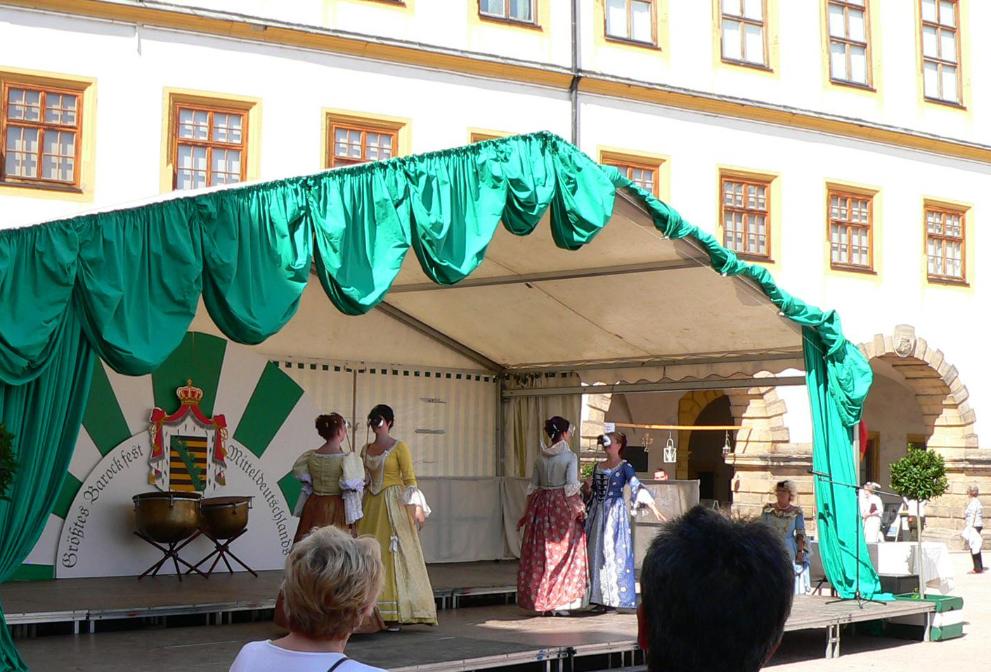 The barock event in Gotha, Friedenstein residenz castle.